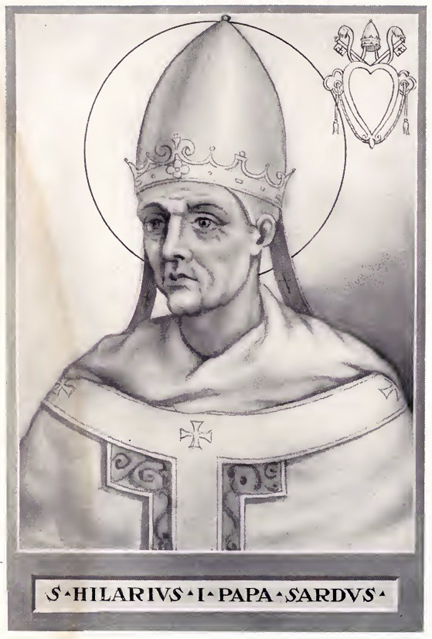 This illustration is from The Lives and Times of the Popes by Chevalier Artaud de Montor, New York: The Catholic Publication Society of America, 1911. It was originally published in 1842.